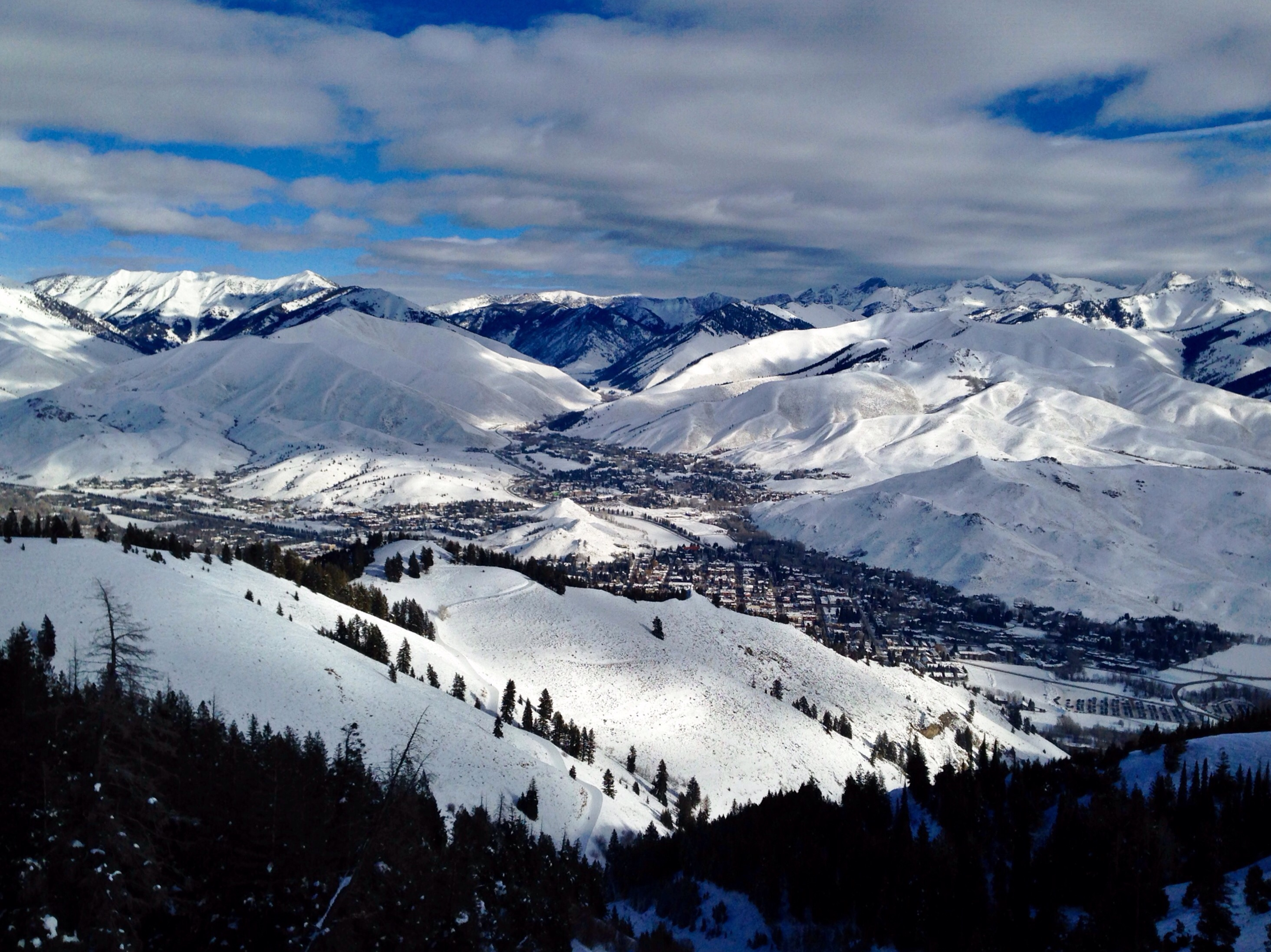 The Wood River Valley, Pioneer Mountains, Ketchum, and Sun Valley viewed from Bald Mountain in winter